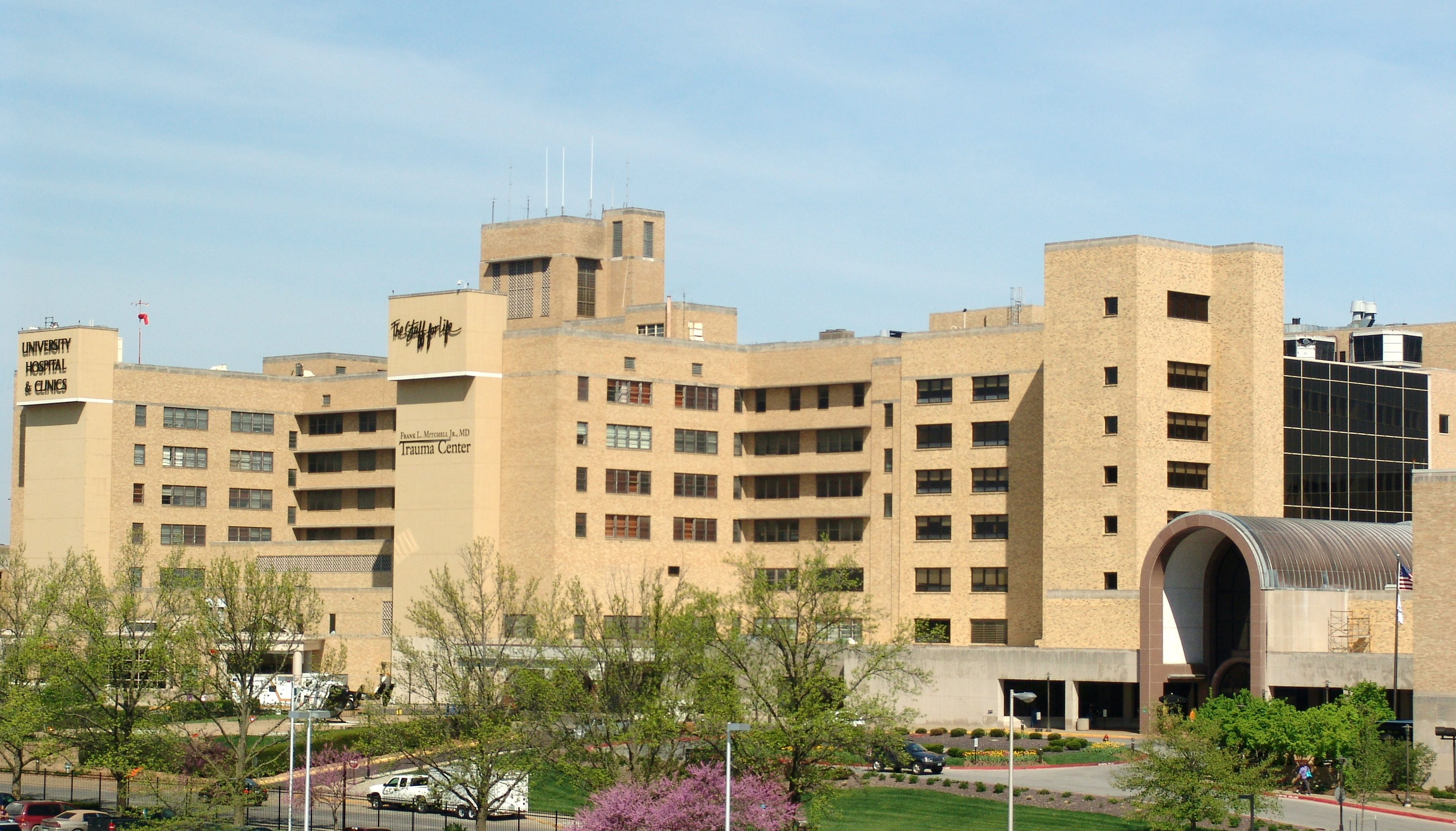 A photo of University Hospital and Clinics from the newly built parking garage 7.